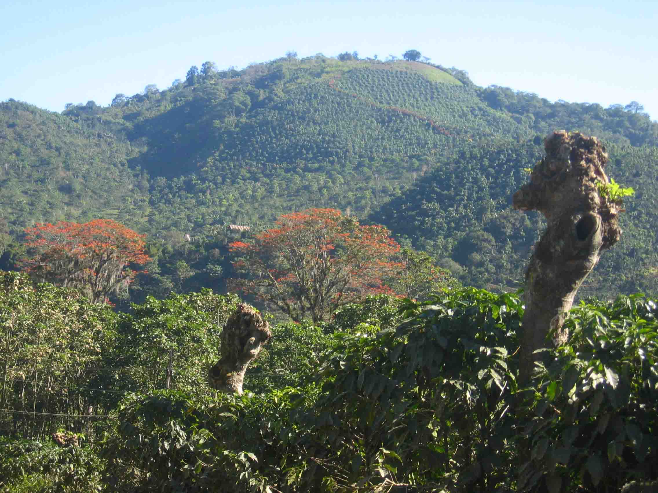 Photograph by Dirk van der Made (User:DirkvdM - for more photos see user:DirkvdM/Photographs). Coffee plantation with shade trees in Orosí, Costa Rica, 1 February, 2004. Coffee in Orosí is grown in the shade during parts of the growing season, which is supposed to improve quality. The red trees in the background provide shade. The predominant shade tree here is poró (Erythrina poeppigiana); those in the foreground have been pruned to allow full exposure to the sun.